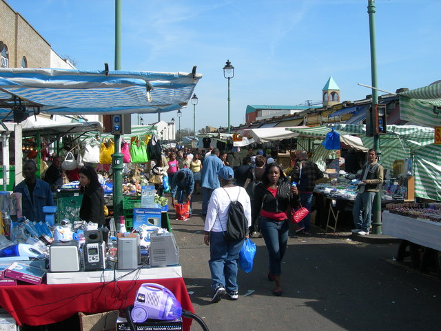 Ridley Road Market, Dalston. This market sells all the usual things you'd expect, plus products which will appeal to a large Afro-Caribbean community locally. Here's how it looks without the market 390498